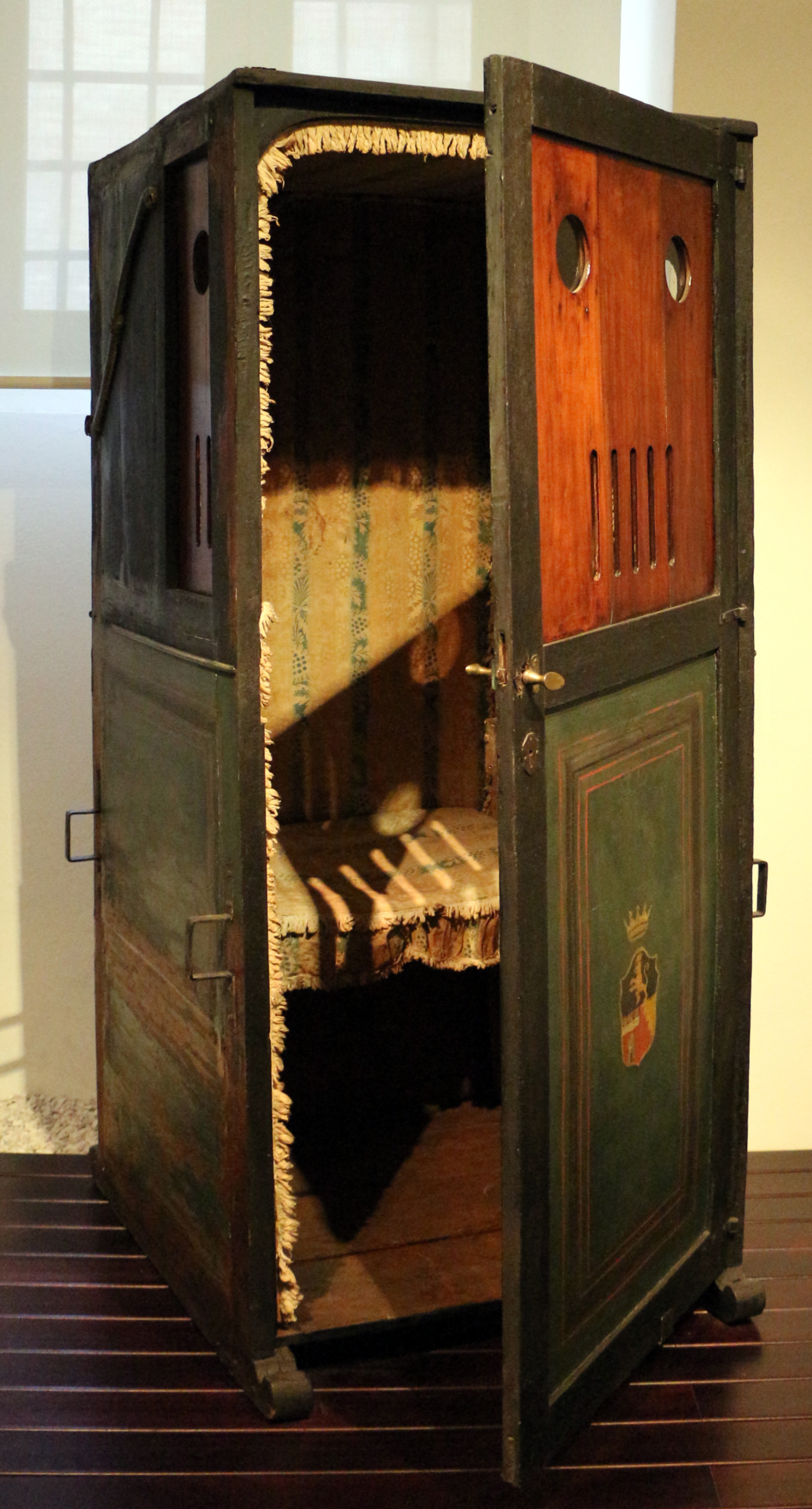 Palazzo Buonaccorsi (Macerata)